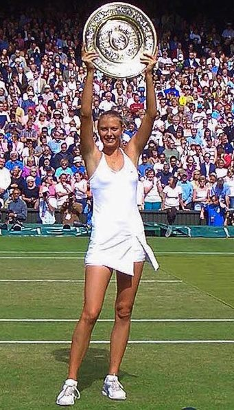 Sharapova holds Venus Rosewater Dish after winning at the Wimbledon 2004